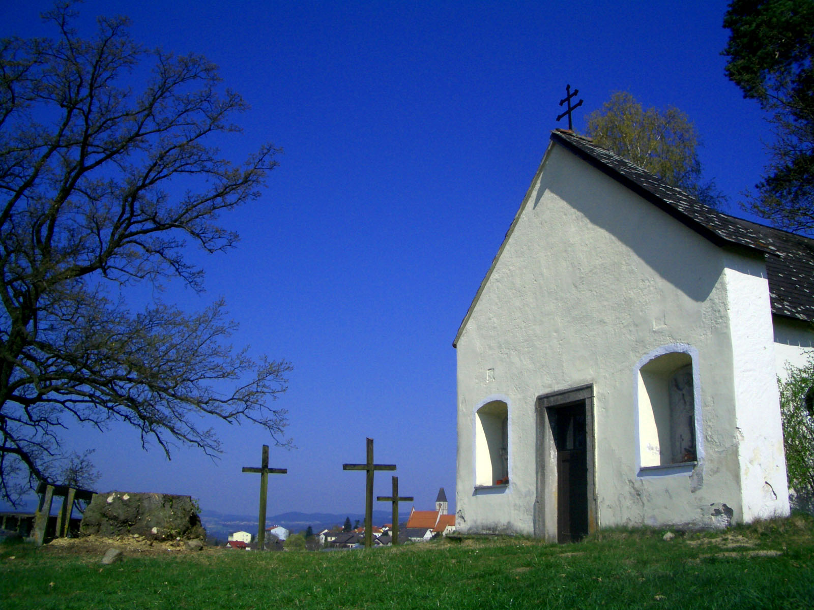 Calvary Church in Wartberg ob der Aist, Upper Austria